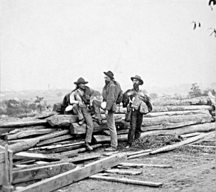 Three Confederate prisoners in 1863 July, near Gettysburg, Pennsylvania.